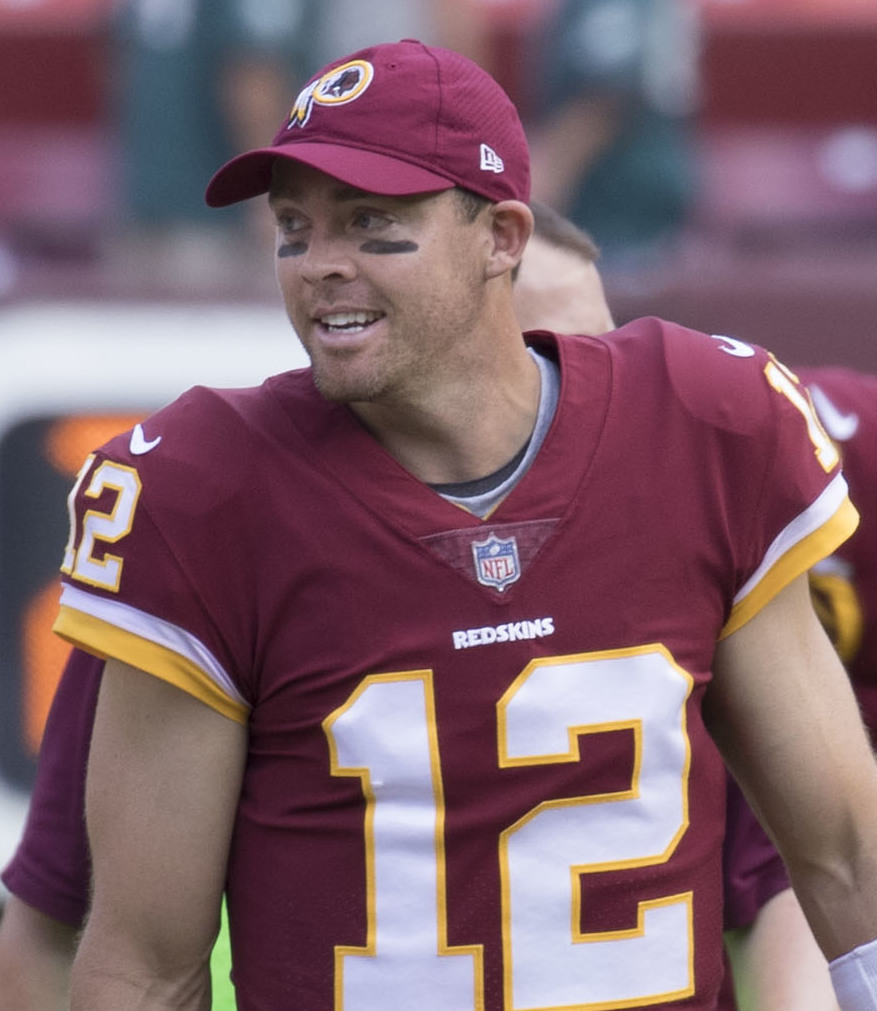 Washington Redskins quarterback, Colt McCoy, after a game against the Philadelphia Eagles on September 10, 2017.